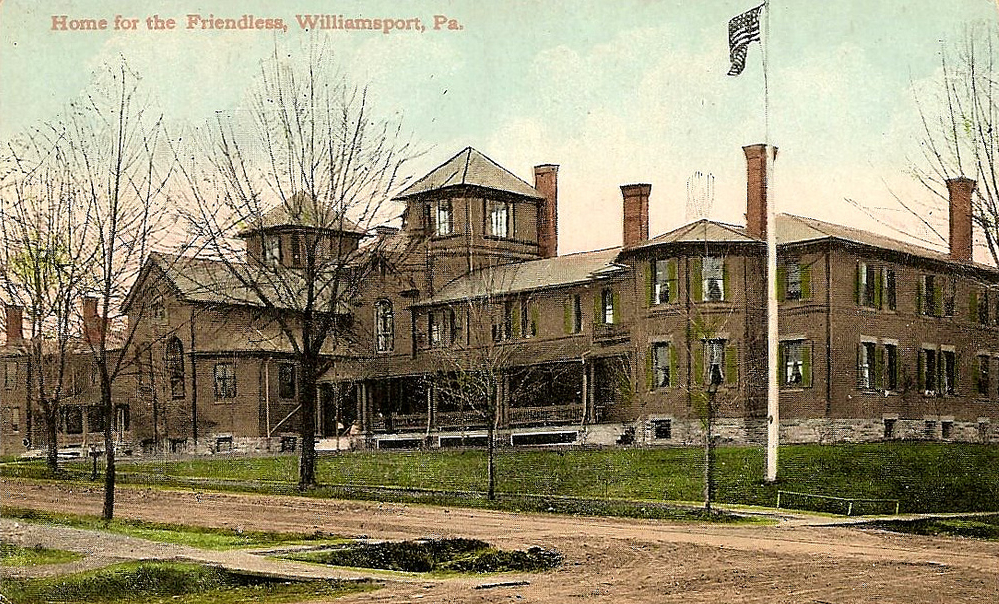 Williamsport postcard